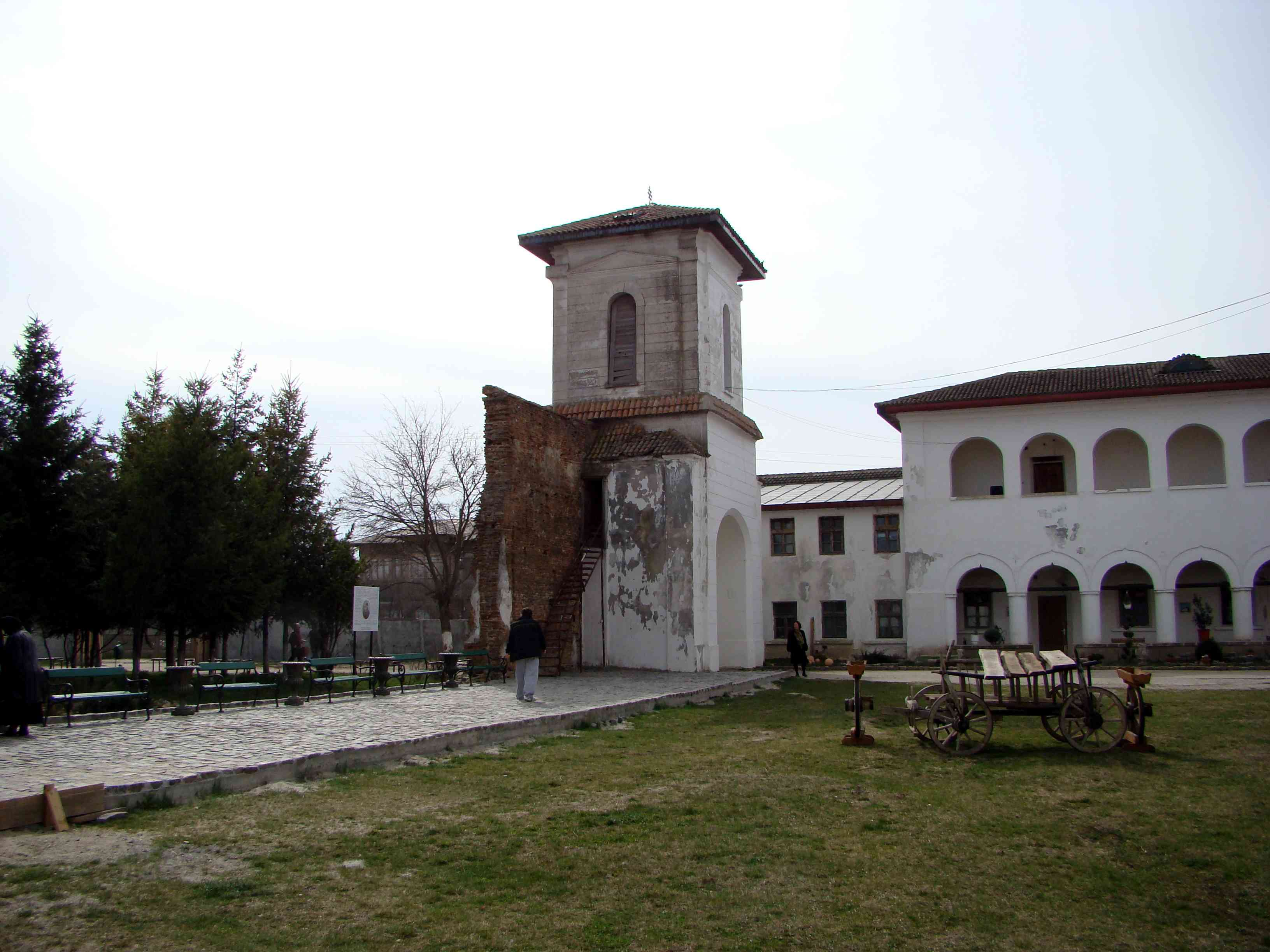 Entrance tower (bell tower)